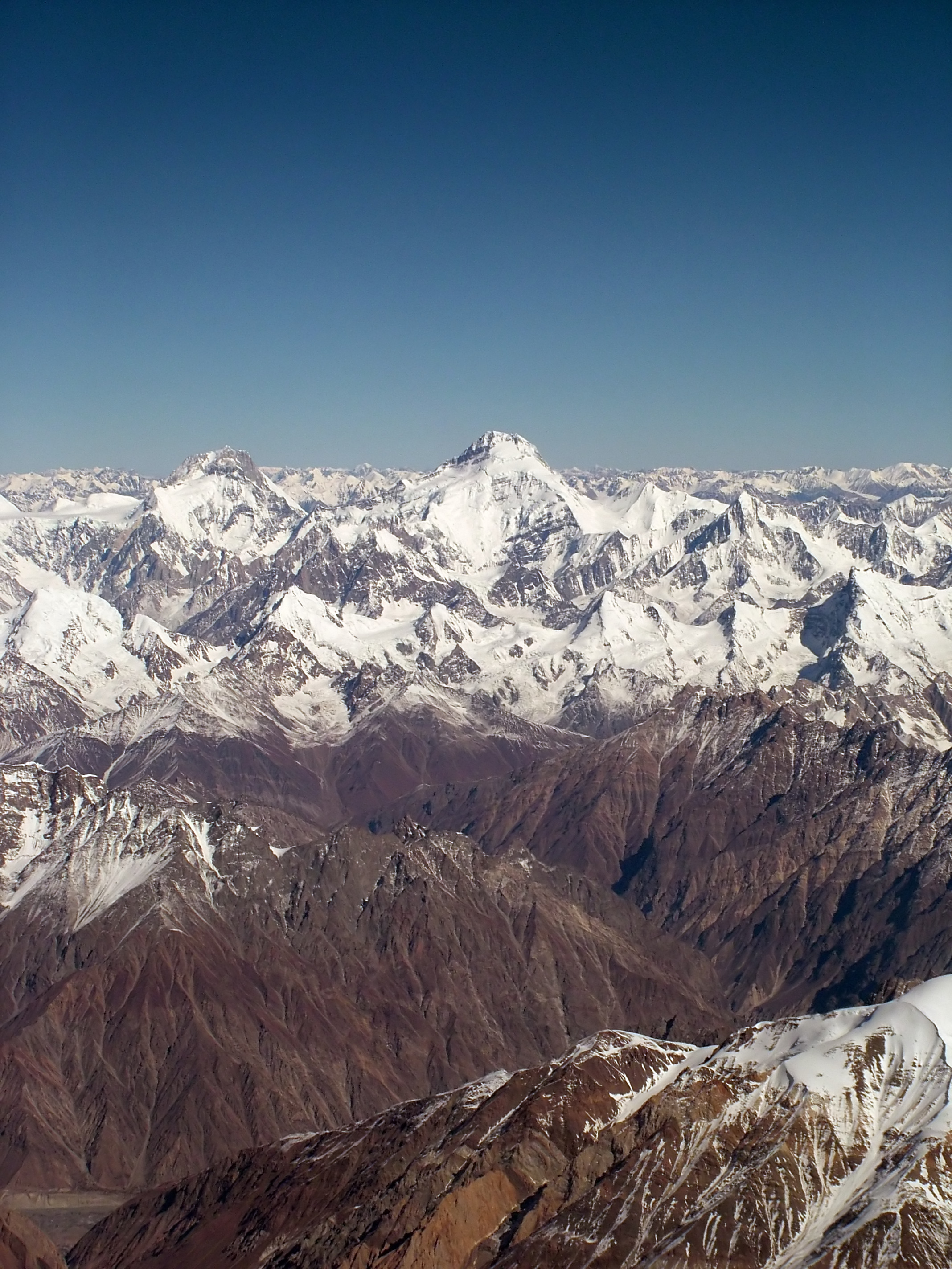 Aerial view of the Karakorams: Yukshin Gardan Sar (left) and Kanjut Sar (centre)